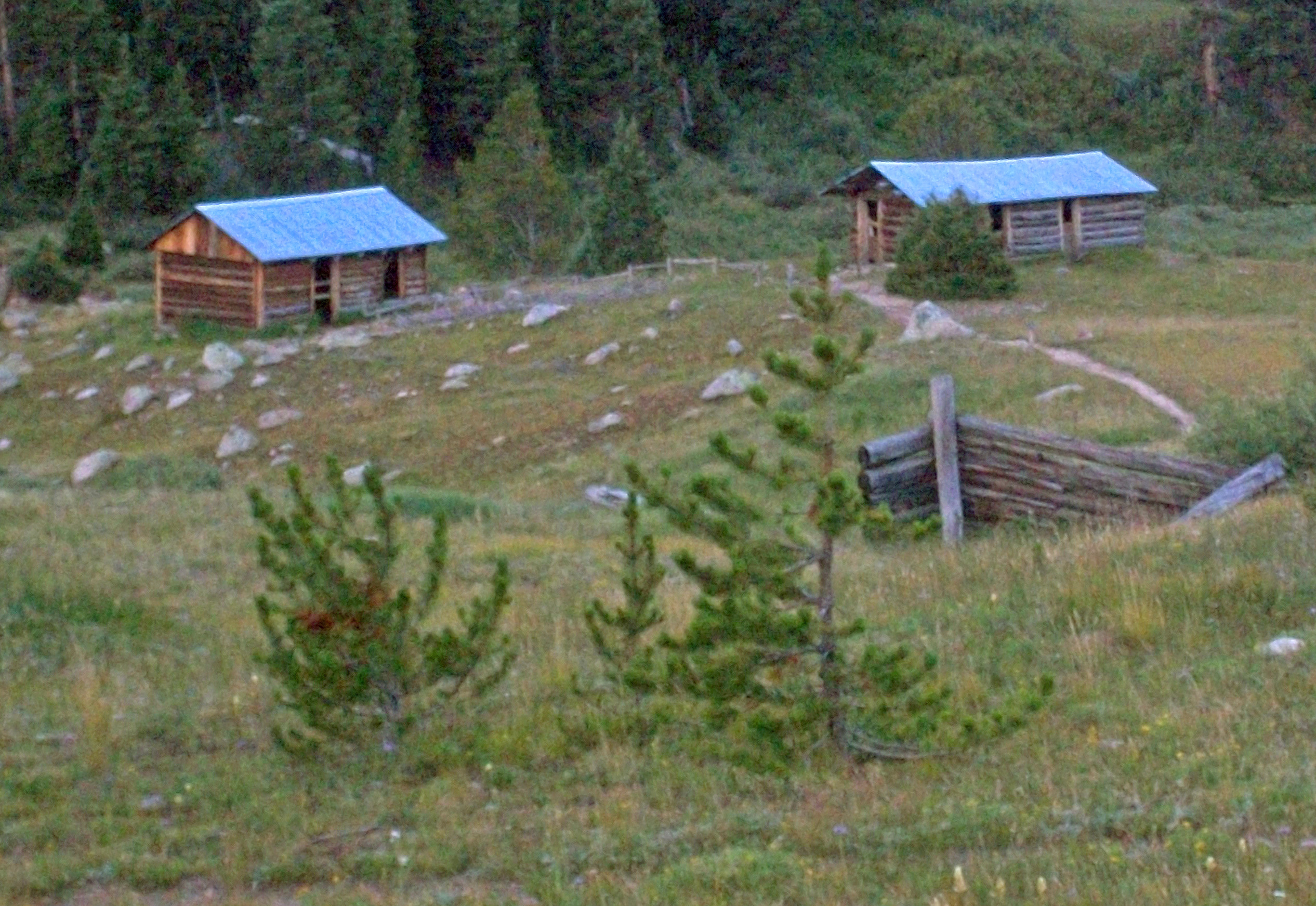 Abandoned log cabins in ghost town of Indepedence, CO, USA.